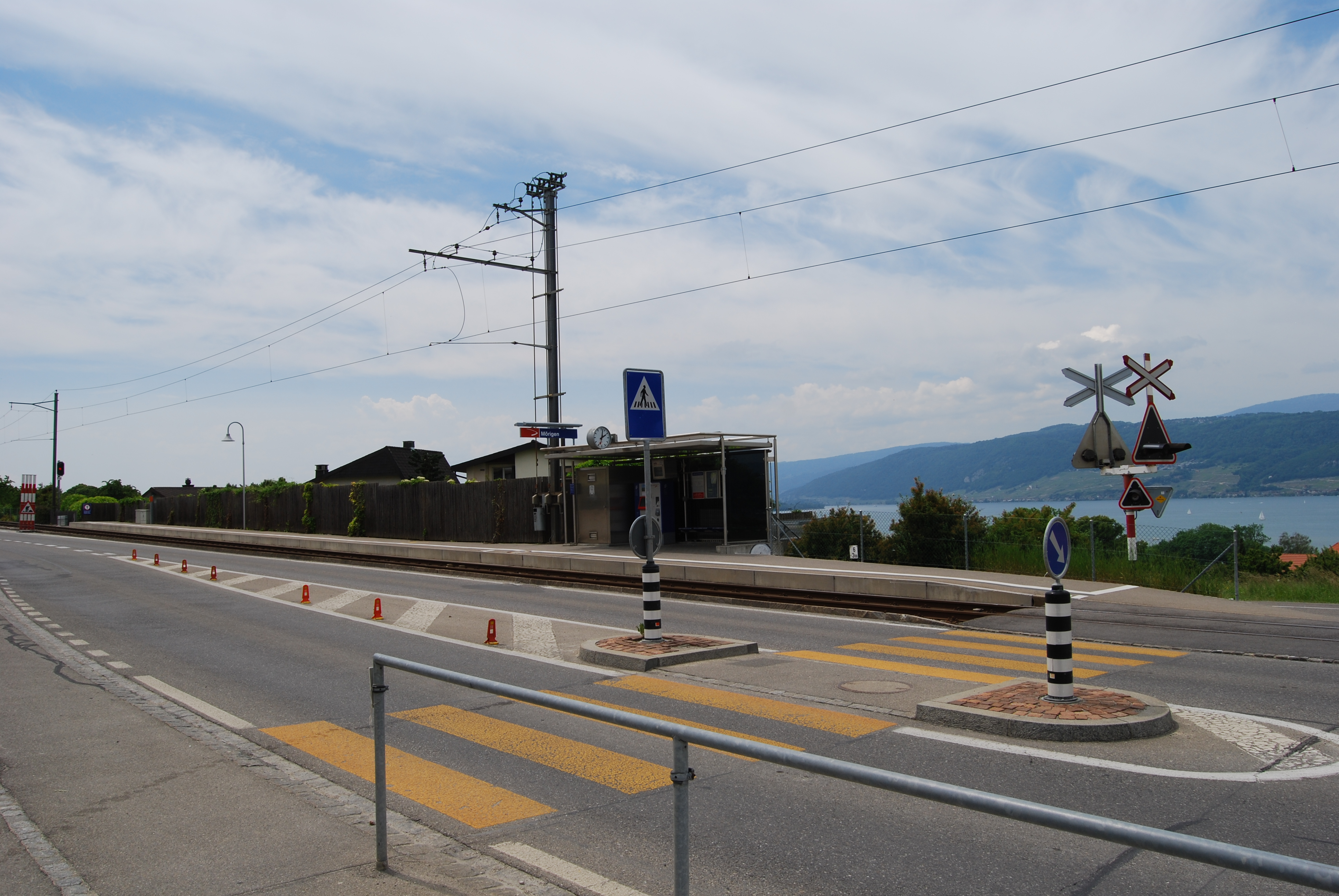 Train station of Mörigen, canton of Bern, Switzerland